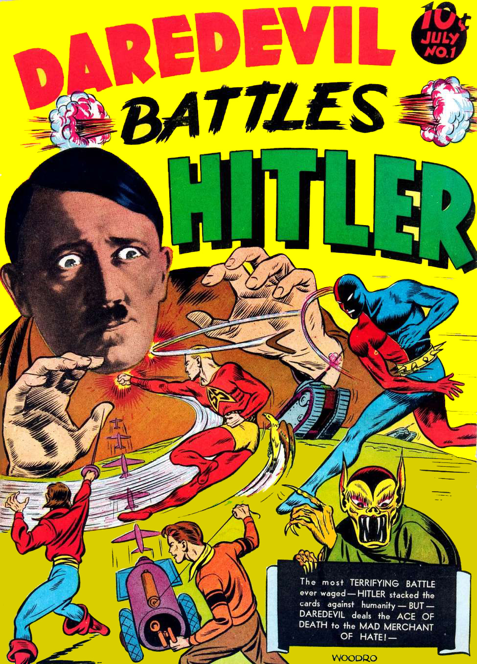 Cover, Daredevil Battles Hitler (Daredevil #1), July 1941, Lev Gleason Pubs. (defunct co.)